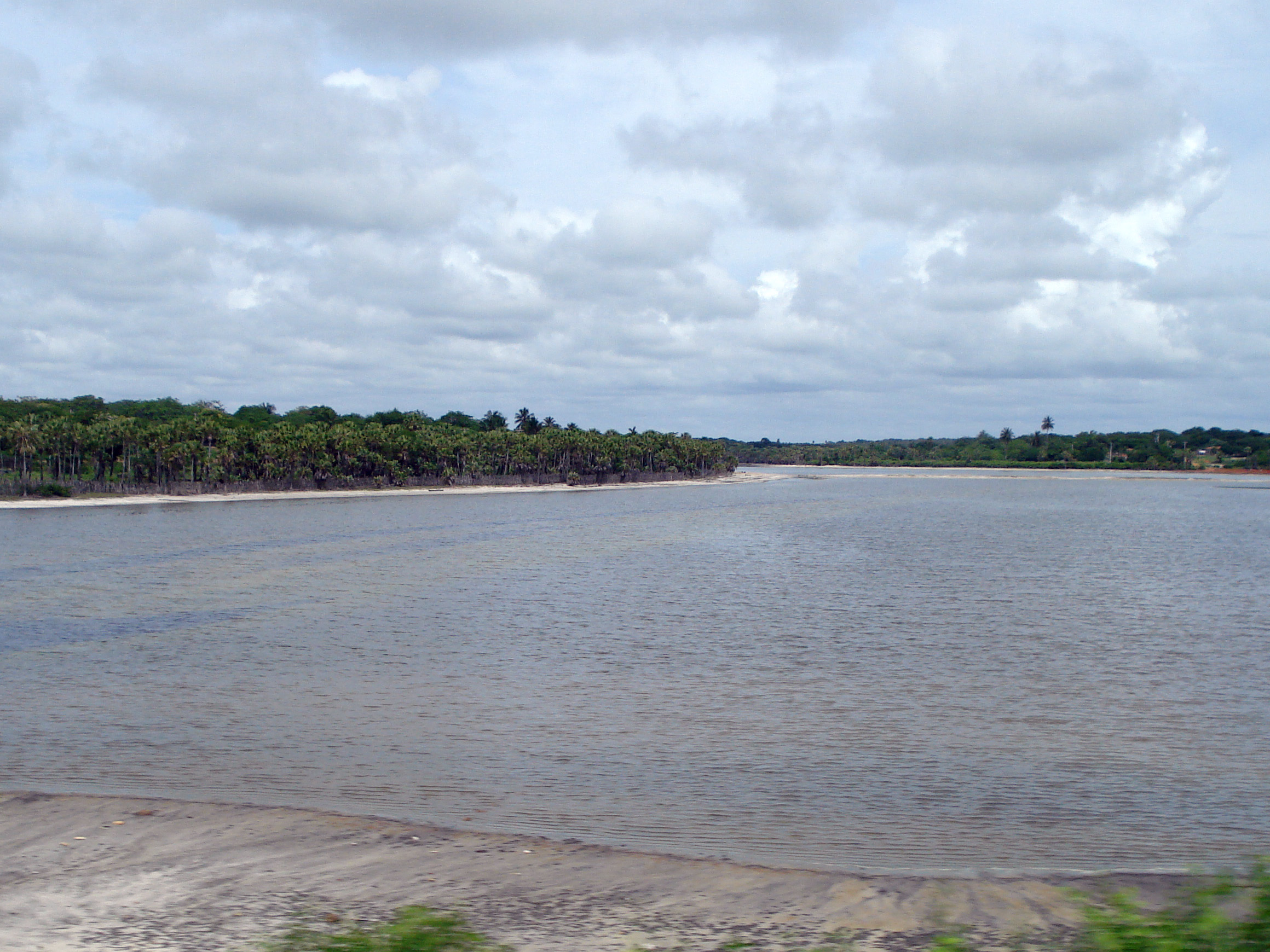 Jaguaribe River, close to Aracati, Ceará, Brazil